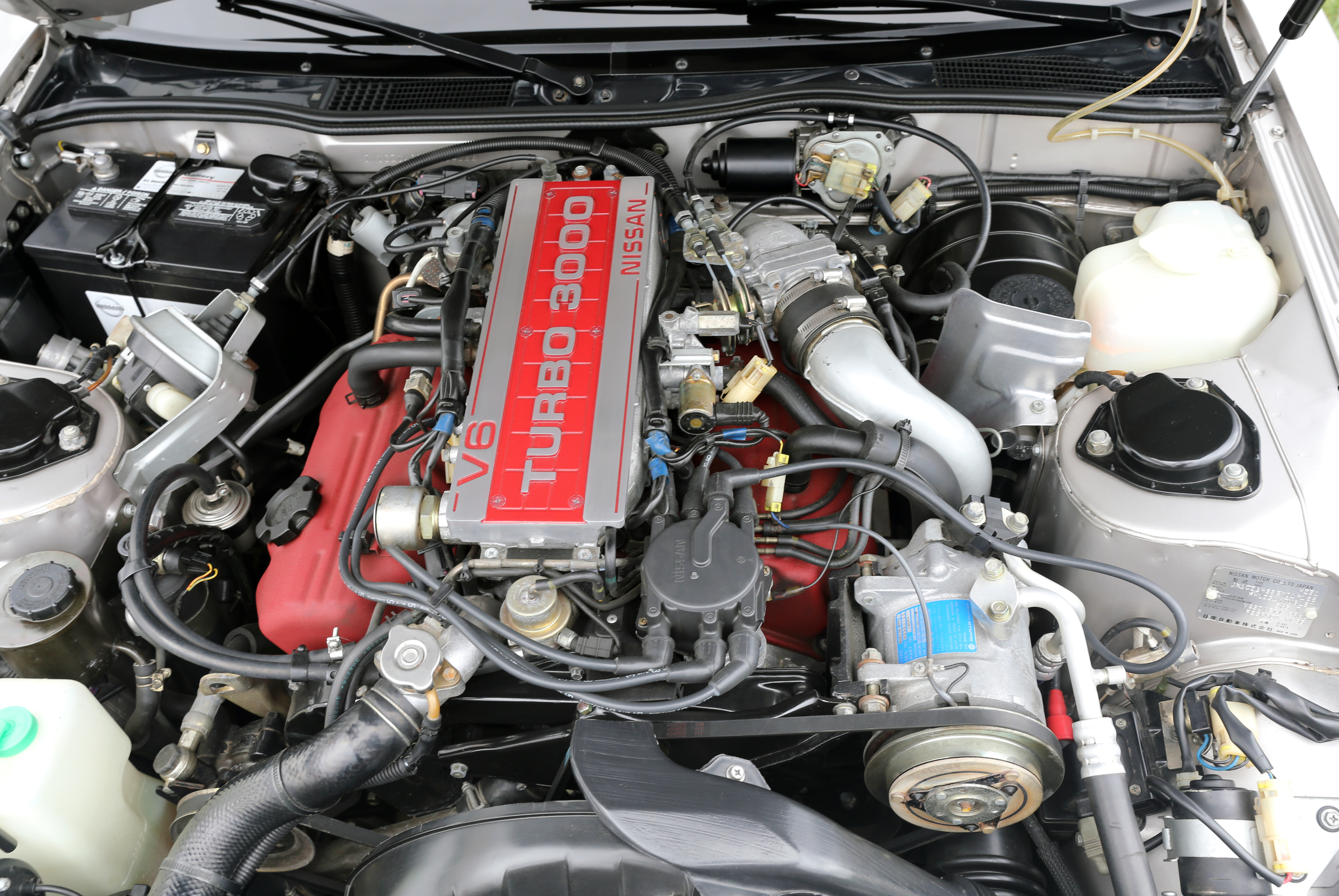 Nissan VG30ET engine in a 1984 300ZX Turbo at the 2014 Lime Rock Concours d'Élegance. 1984 was the last year for the oil-cooled turbo, with 1985s using air as well.